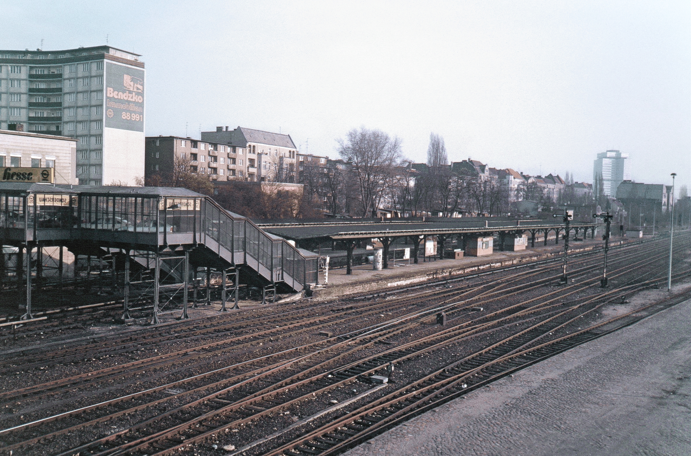 Berlin Halense train station